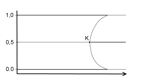 The figure illustrates Krugman’s ‘core-periphery’ model. The horizontal axis represents costs of trade between the two regions. The vertical axis represents the share of either region in manufacturing. Solid lines on the graph denote stable equilibria. Dashed lines denotes unstable equilibria. K is a critical (bifurcation) point.